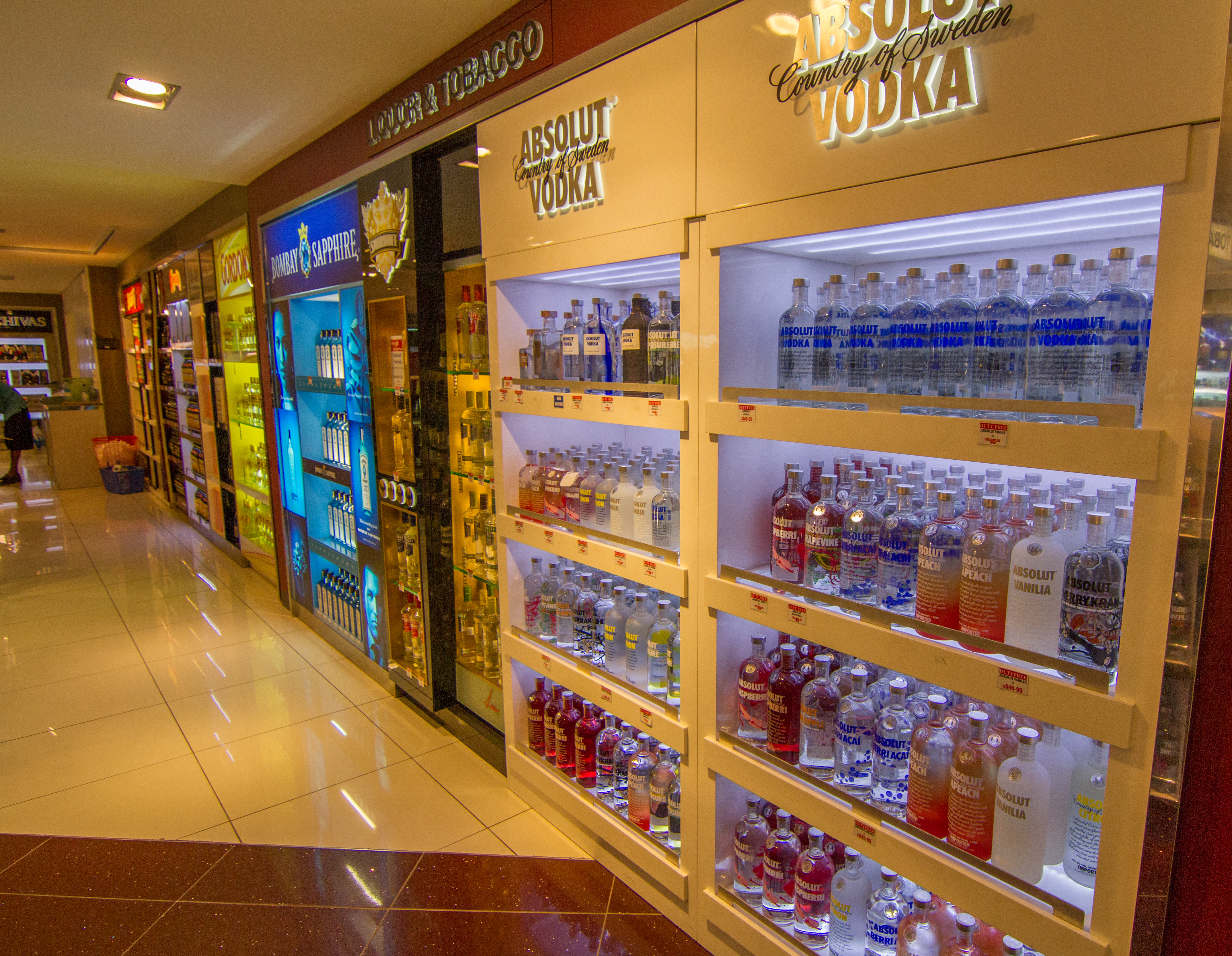 Absolut Vodka on sale at duty free at Nadi International airport, Fiji